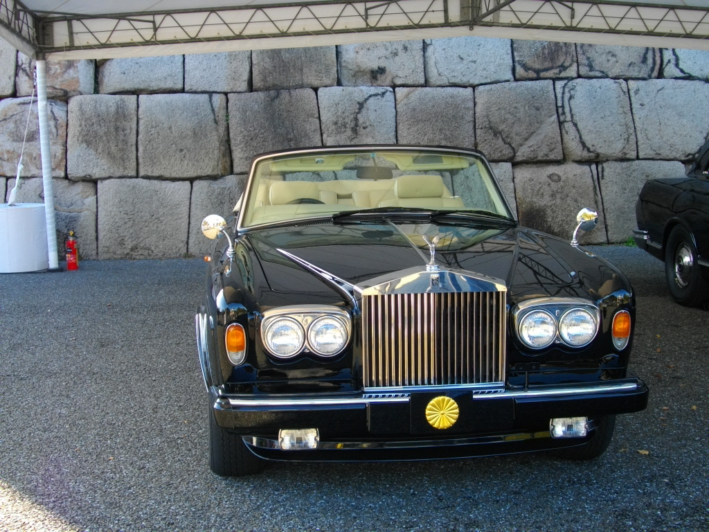 Imperial Processional Car (1990 Rolls-Royce Corniche)